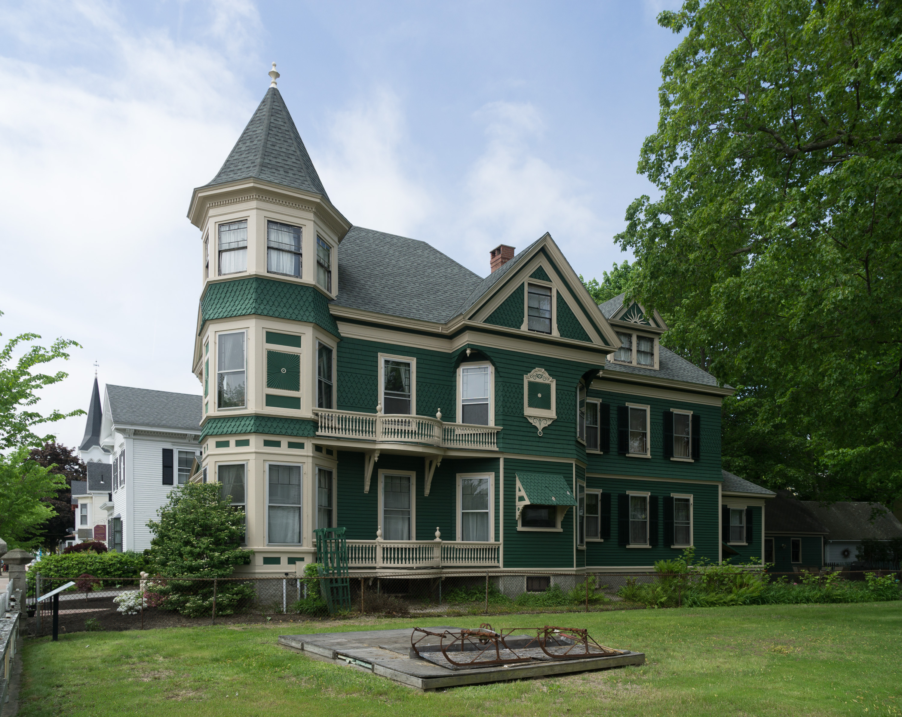 1892 Emma Hall House; Saco Historic District, 342 Main St., Saco, Maine